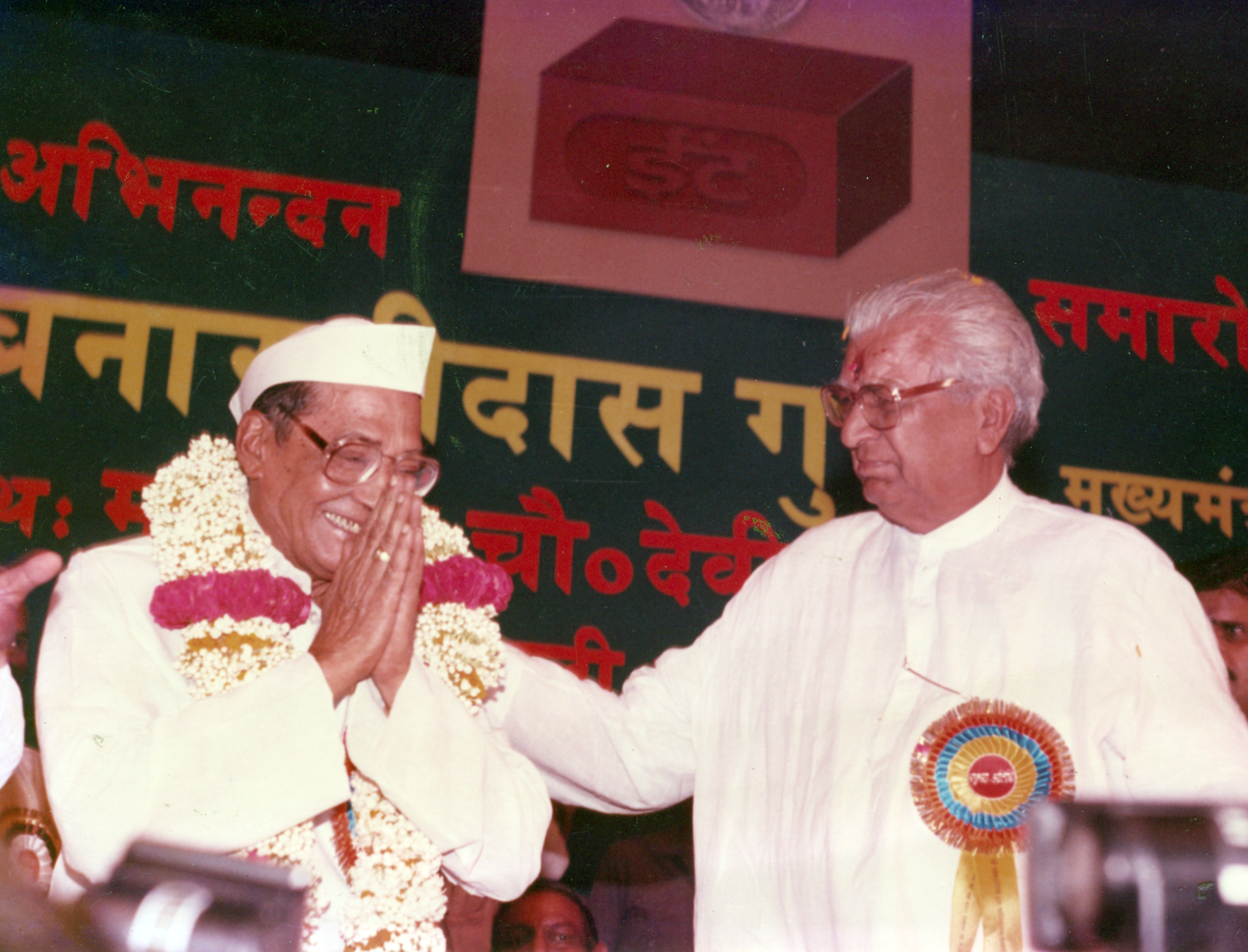 Banarsi Das Gupta with Devi Lal (Deputy Prime Minister of India)